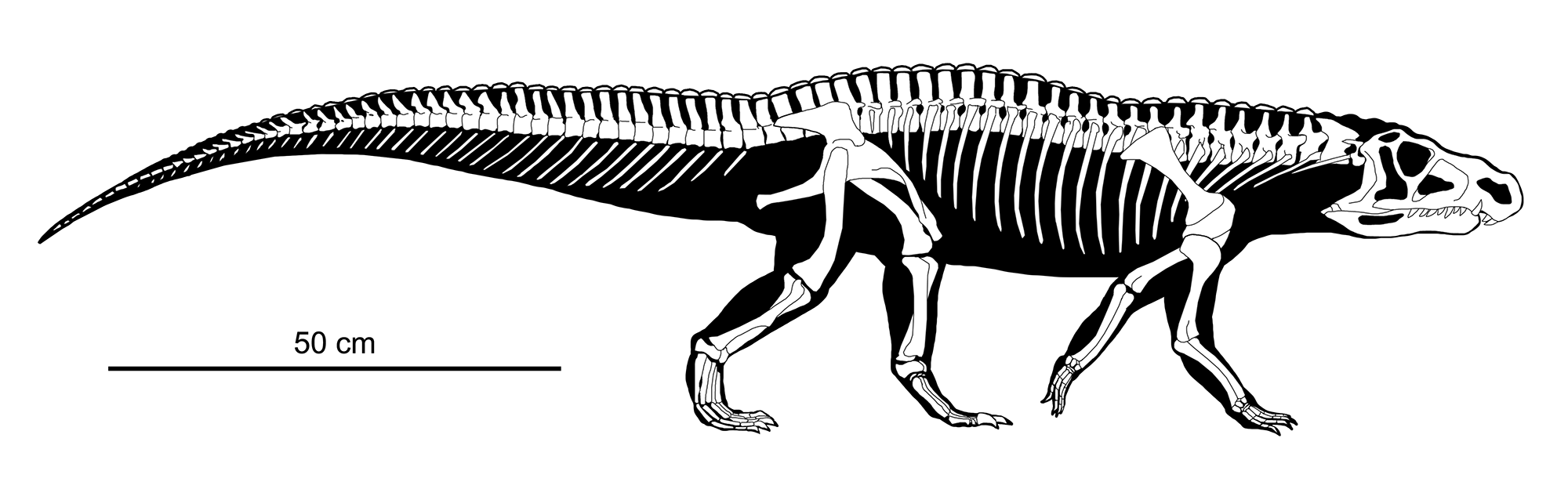 Skeletal diagram of Riojasuchus